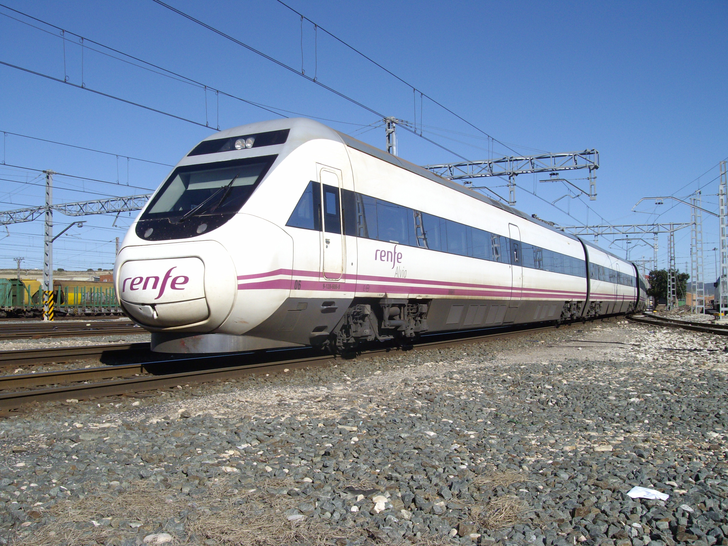 Alvia train (class 120) from Barcelona to Vigo, Spain